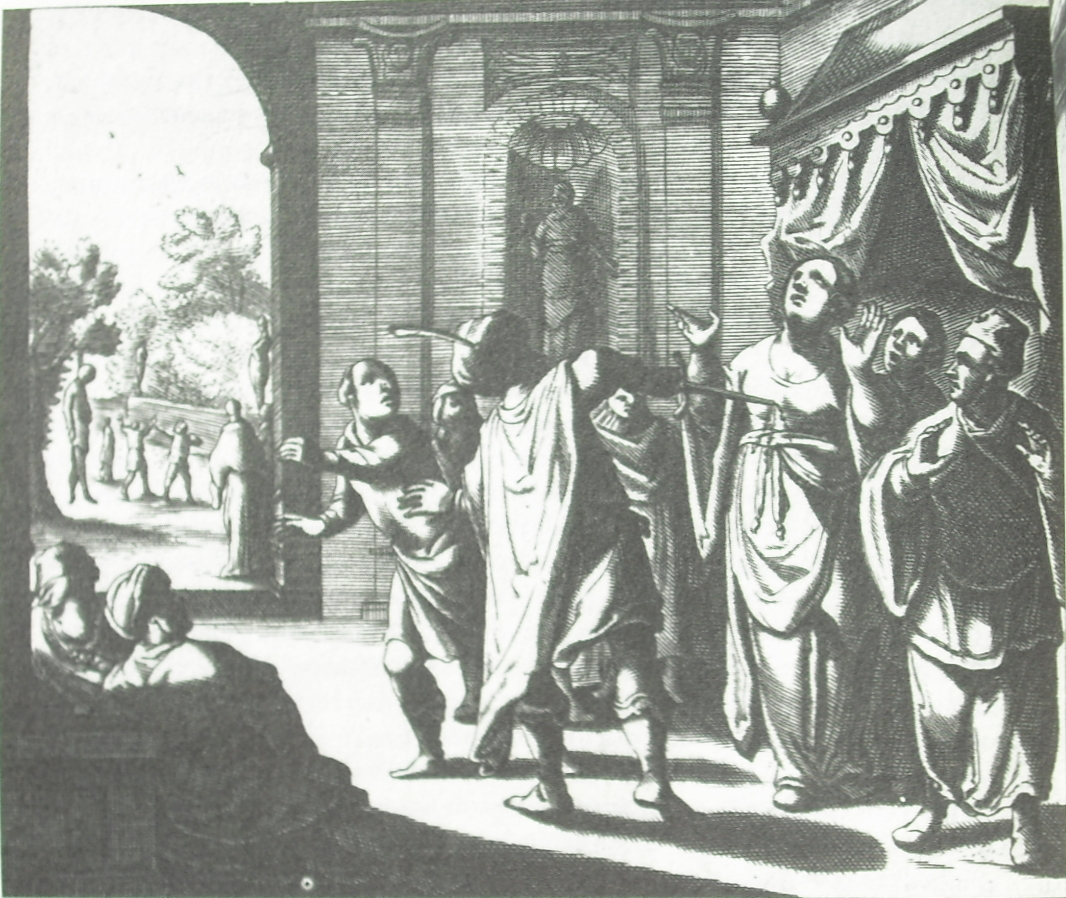 The Chongzhen Emperor killing his daughter in the Forbidden City, so that she would not be captured by Li Zicheng's rebels (April 1644). The image of a hanging person on a tree in the background probably refers to the emperor's suicide that followed. The woodcut is probably made by a European artist who did not go to China himself, but had to rely on Martini's account of the events in De bello tartartico